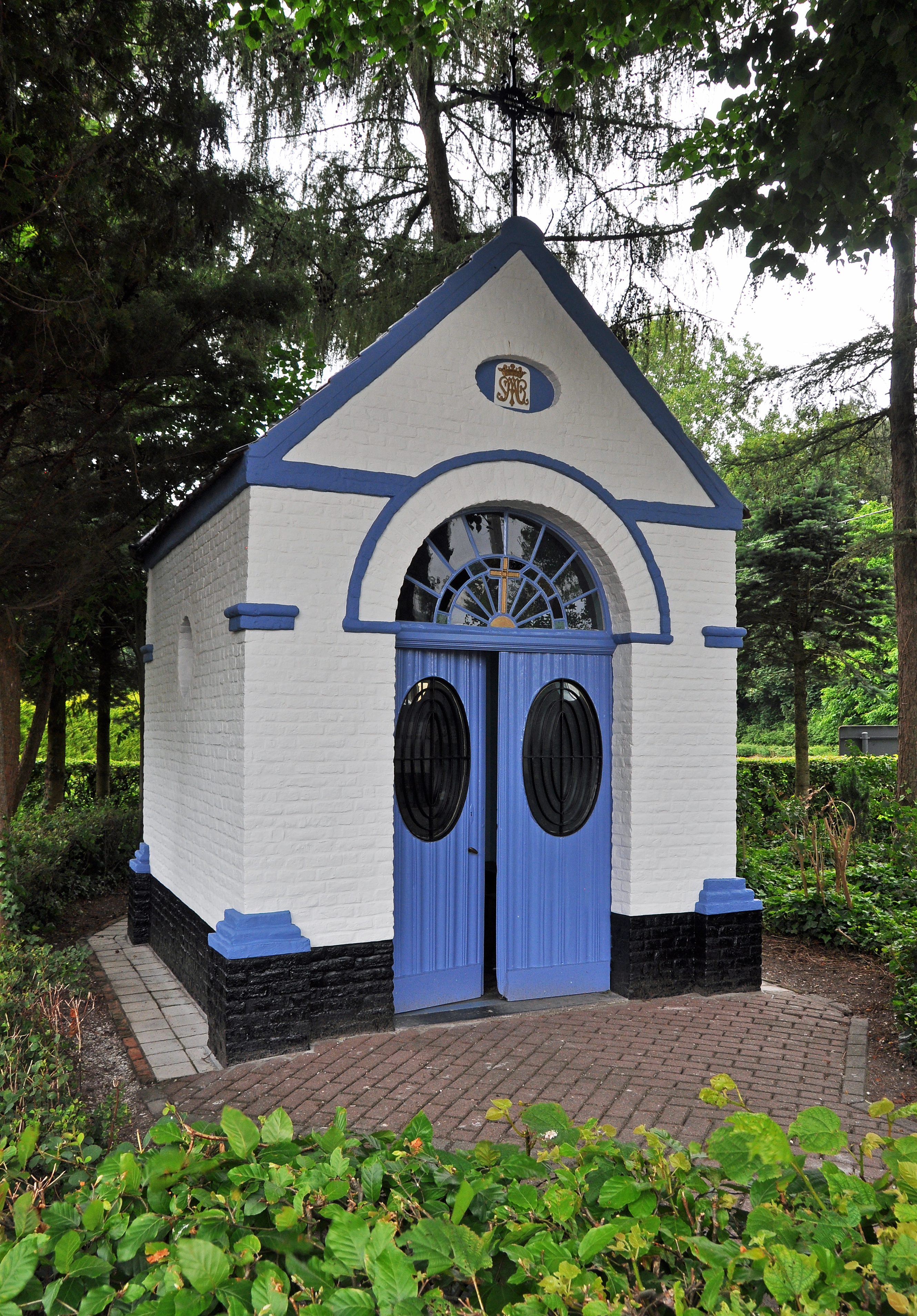 Bekegem (Ichtegem, Belgium): St Mary's chapel or Boskapel